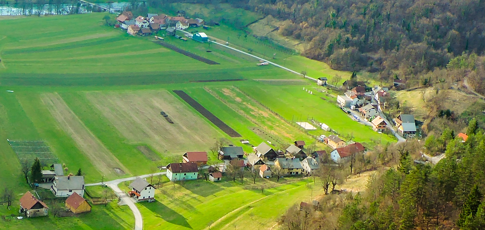 Photo taken from "Sodevska stena", named after the village Sodevci seen on the right. On the other side of the river is Croatia, with the villages of Zapeć (upper left) and Blaževci (upper right). The Kolpa river is 294 km long. For 118 km it is a border river between Slovenia and Croatia. It is popular in the summer because of it numerous camps, swimming and other various events.